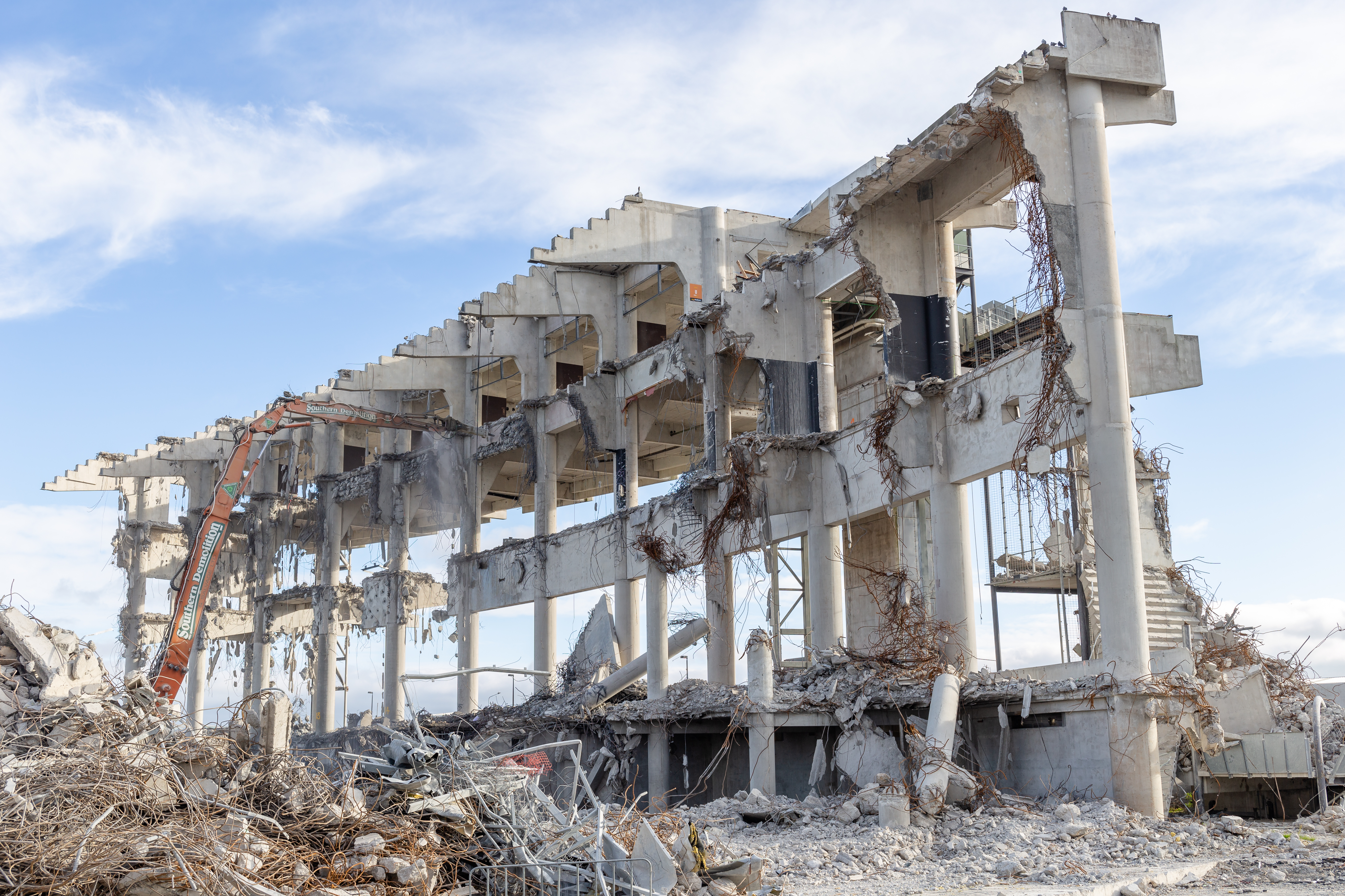 Lancaster Park during demolition, Christchurch, New Zealand